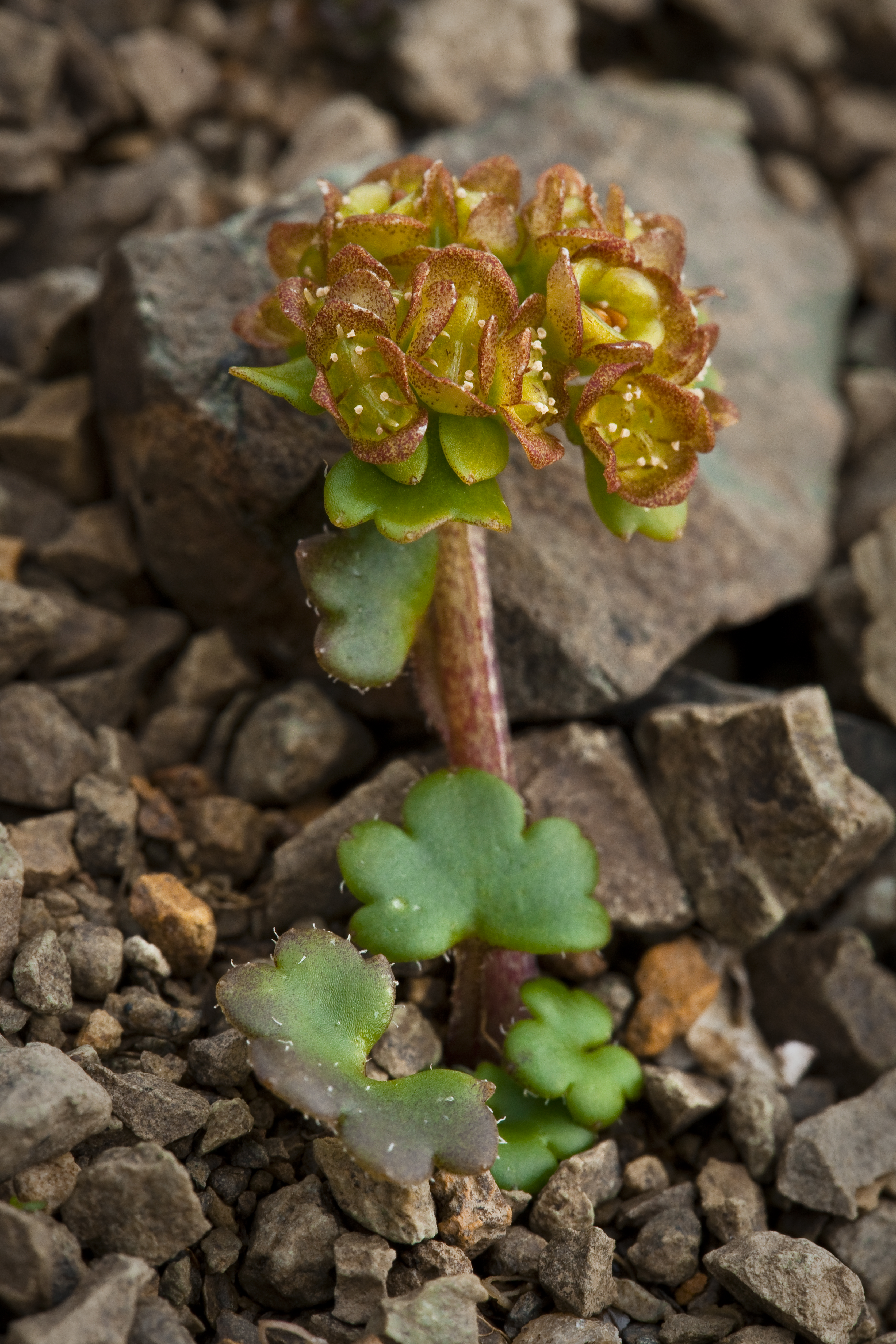 Chrysosplenium wrightii, Denali National Park and Preserve, AK, USA